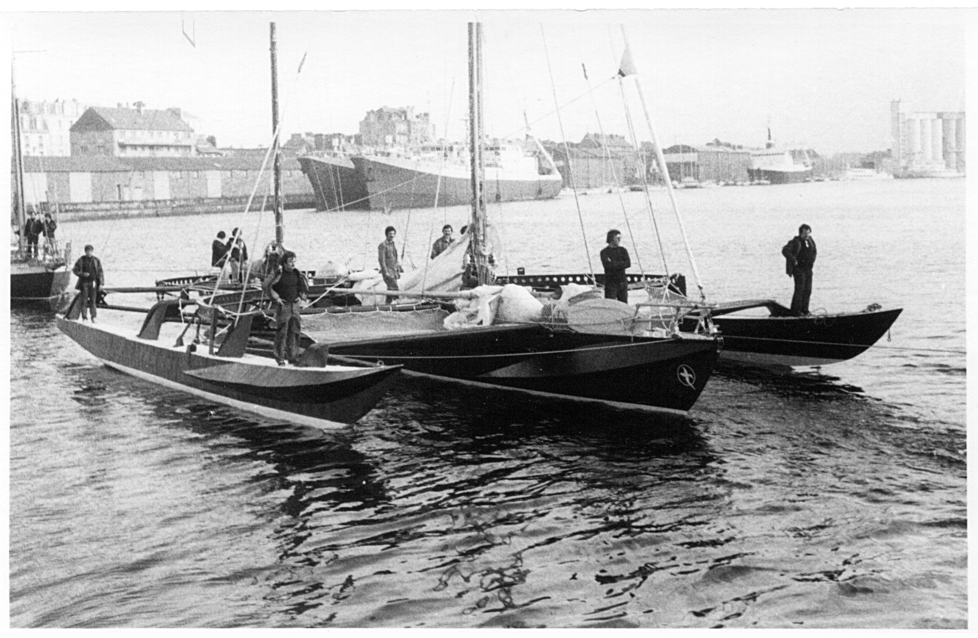 Manureva, the trimaran of Alain Colas. Photo taken in Saint-Malo (France) a few days before the start of the first transatlantic yacht race, «Route du Rhum».